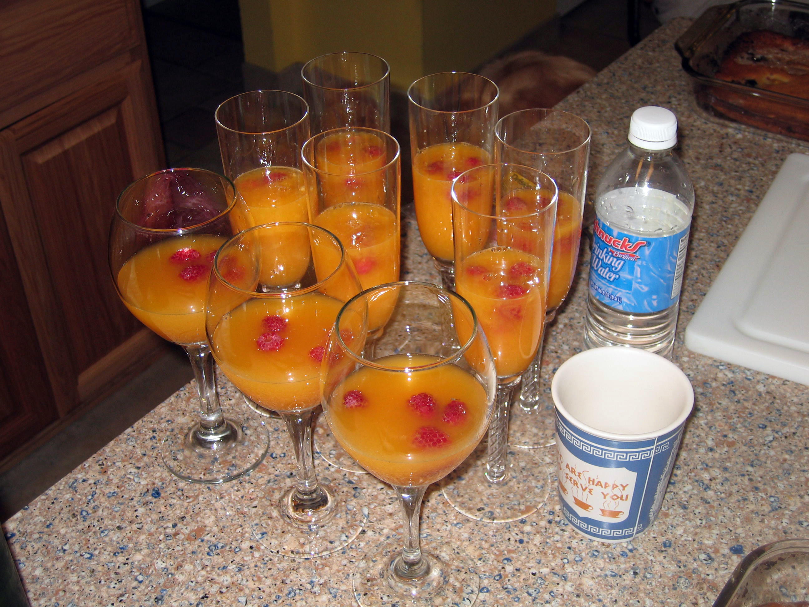 Bellini (cocktail, champagne, orange juice, raspberries, 40th anniversary, St. Louis, Missouri)